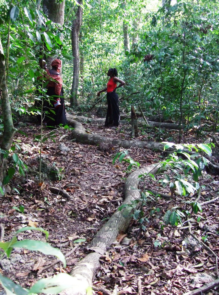 Some trees had extra long roots...